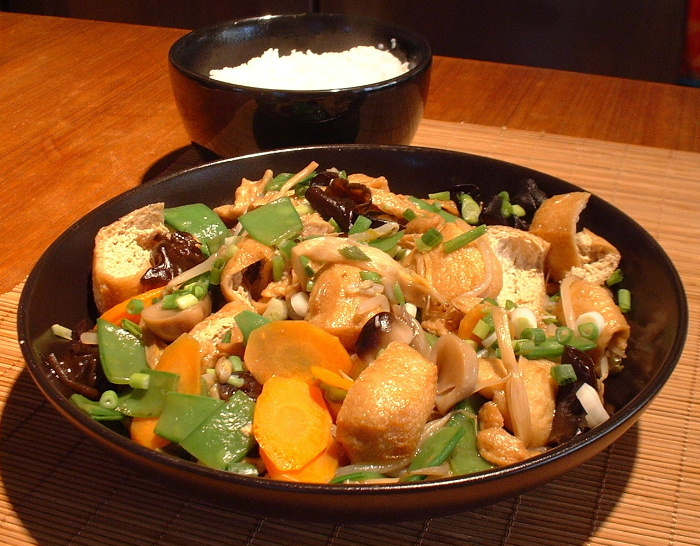 1. Soak tigerlily buds for 30 minutes in boiling water. Rinse, drain and discard the tough roots. 2. Soak shiitake/chinese mushroom 30 minutes in boiling water. Drain and sqeeze excess water. Cut the stems out and throw away. Cut into smaller pieces. 3. Soak the dried tree-ear mushroom for 20 minutes in cold water. Drain and sqeeze excess water. Cut into smaller pieces if necessary. 4 Cut gluten and tofu into smaller cubes. 5. Wash the beansprouts and dry well. 6. Blanche the mangetout and cut in 2 or 3 pieces if you like. 7. Cut carrot in diagonal traces 8. Mix 125 ml stock with 2 T light soysauce, 1/2 t sugar, 1 t salt. Stirfry in hot wok: carrots for 30 seconds add mangetout and beansprouts and stirfry 1 minute. add gluten, tofu, tigerlily buds, 3 kind of mushroom and stock-mixture. Stir well, add lit and simmer for 2 minutes. (or more) Add more soysauce (and stock) of you like. Before serving, add 1 t sesame oil. Eat warm or cold.